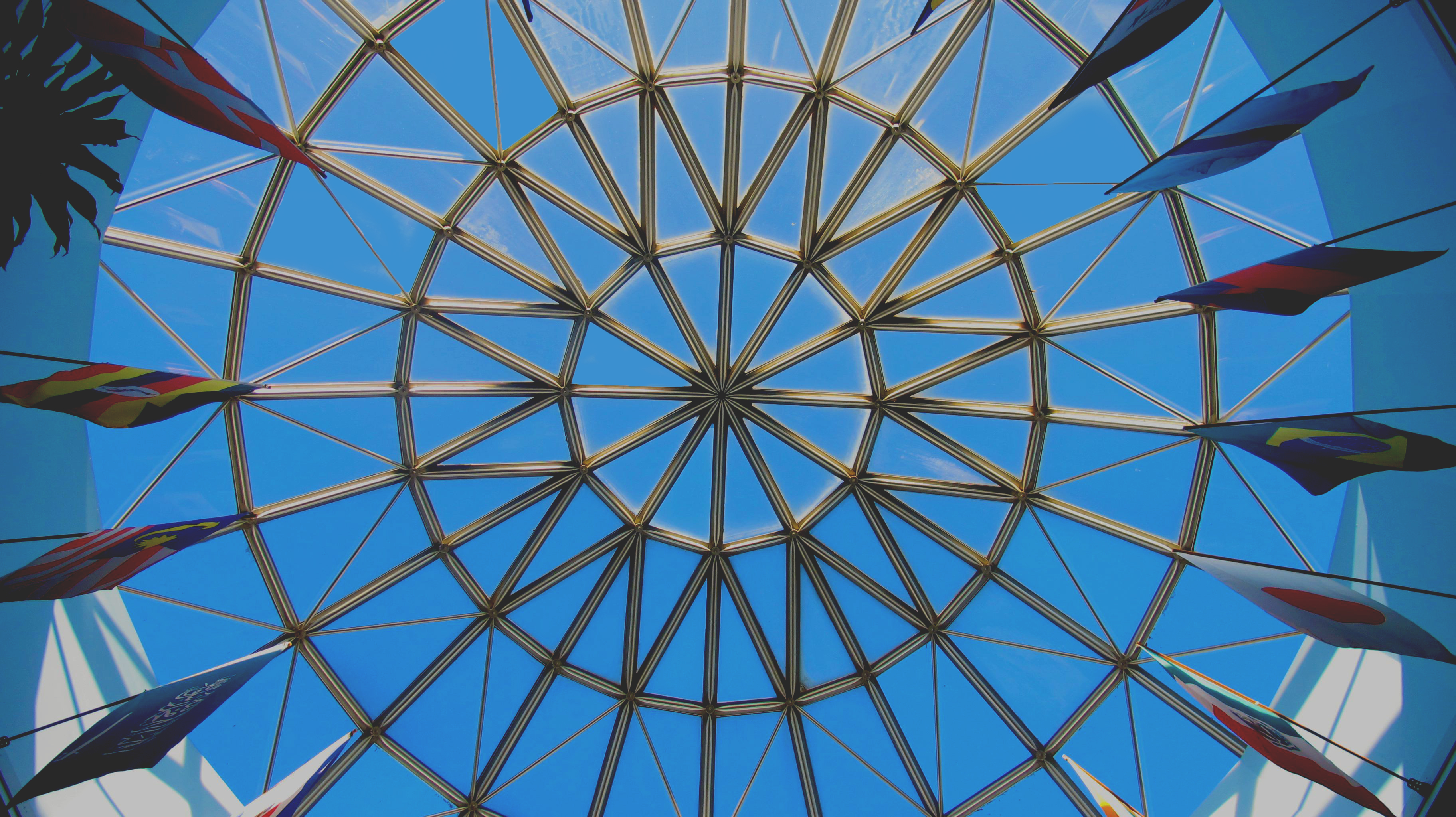 Photo of the flags in the atrium of the school.